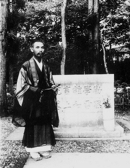 Daito Shimaji